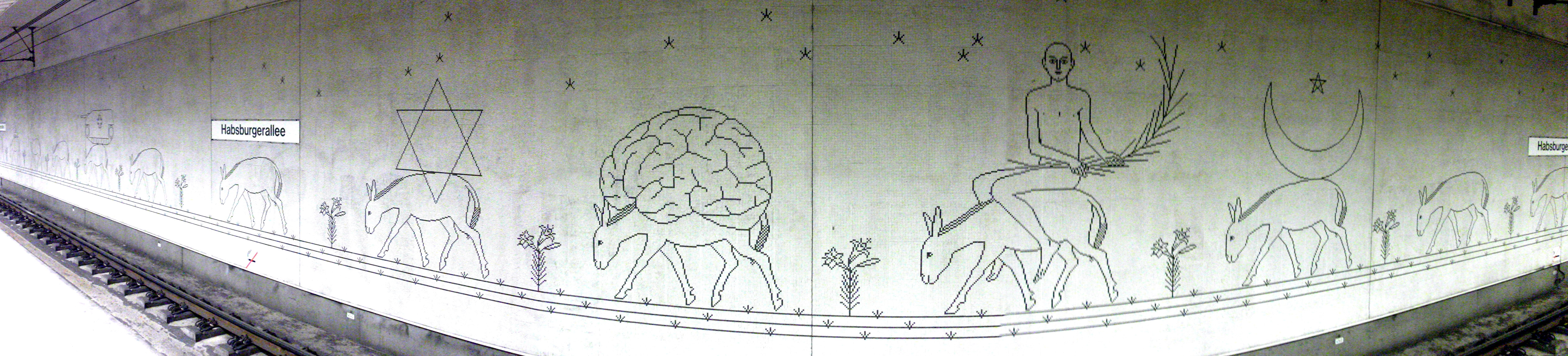 Mosaic by Manfred Stumpf at Habsburgerallee (Underground station), Frankfurt am Main